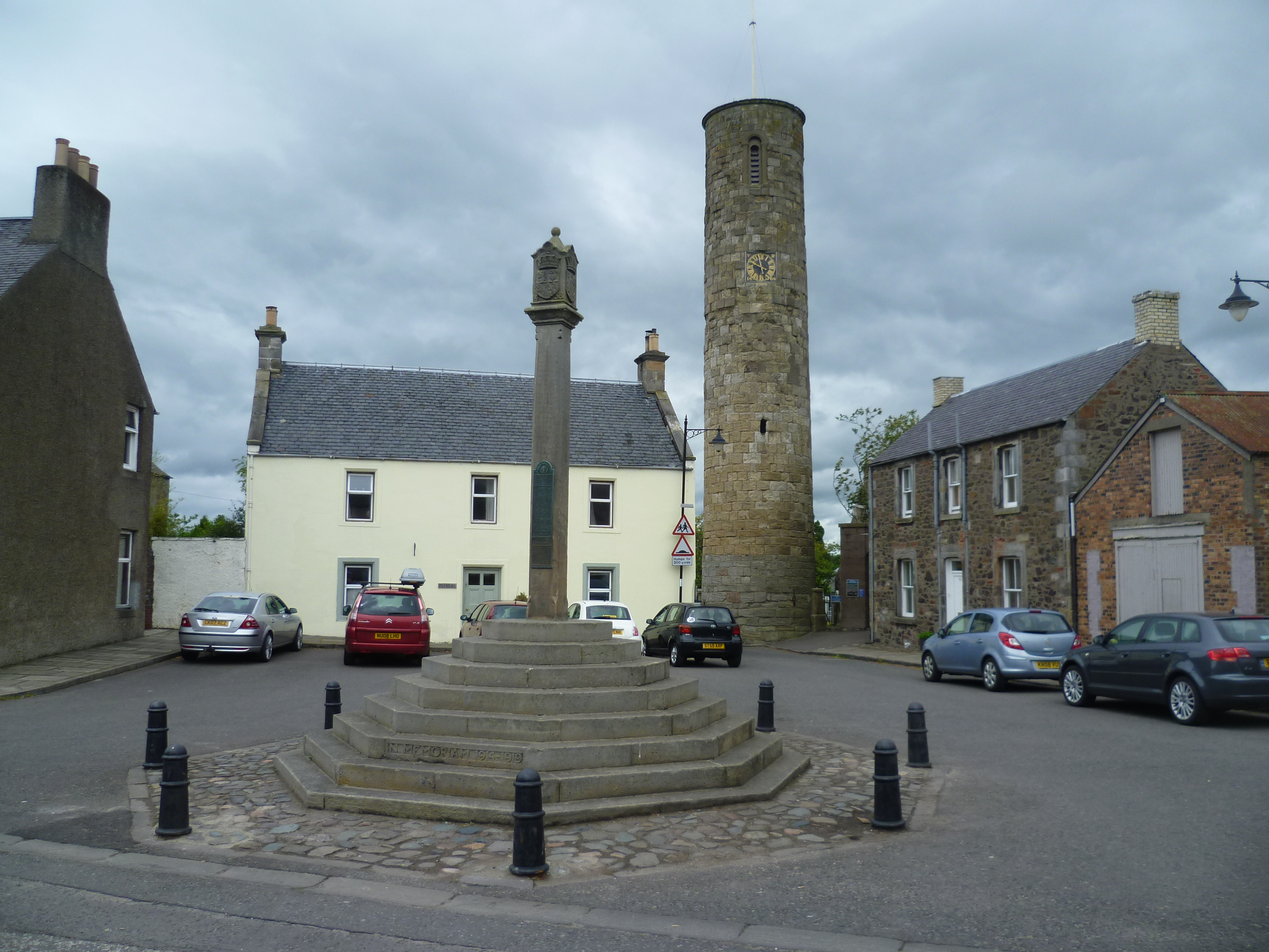 Abernethy mercat cross (war memorial) and round tower, Perth and Kinross